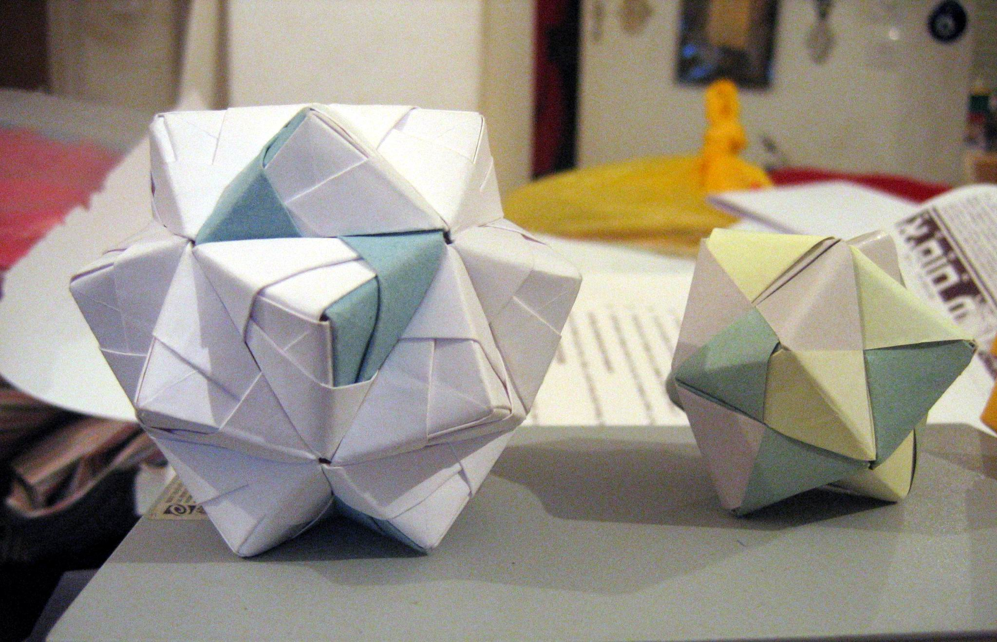 Two examples of Modular origami. Made by Inbar Amir. Taken by Beny Shlevich on Sept. 8th, 2005, in Tzur Yigal, Israel. These are a triakis icosahedron, and a stellated octohedron.